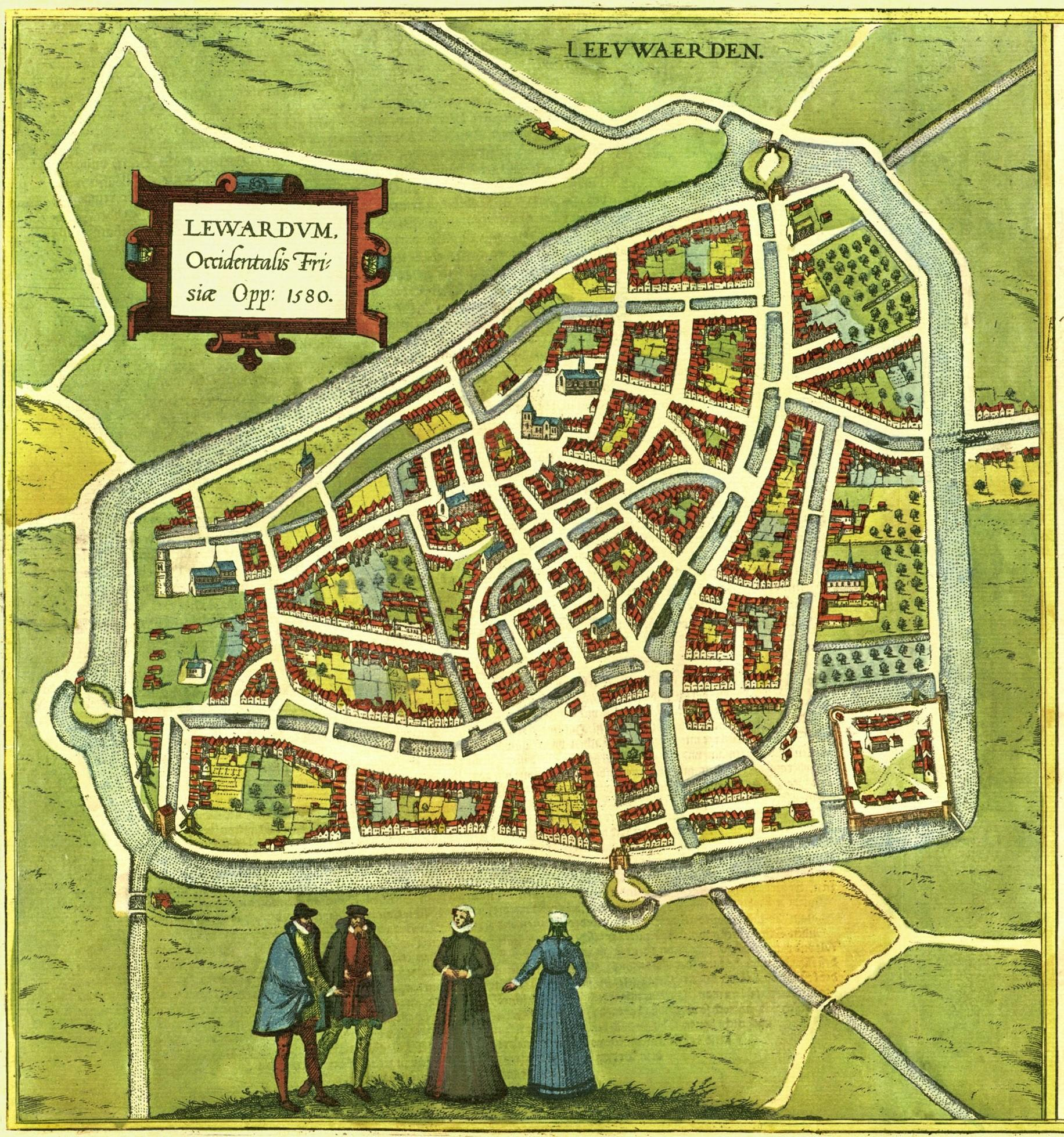 Map of Leeuwarden by Braun & Hogenberg